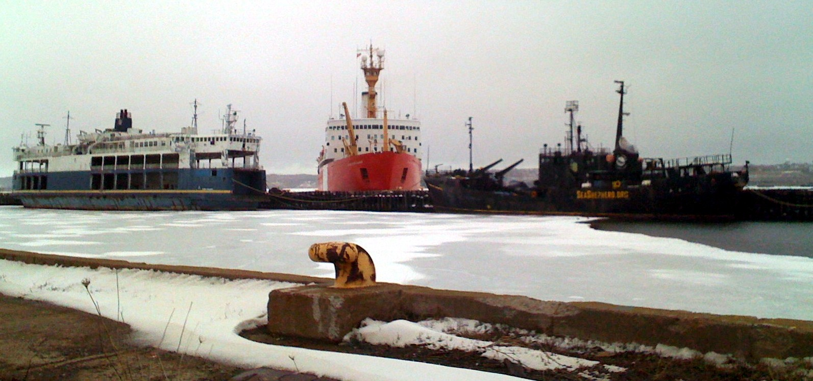 MV Fundy Paradise, IMO 7041429 CCGS Louis S. St-Laurent, IMO 6705937 RV Farley Mowat, IMO 5172602 Sydport, Sydney, Nova Scotia, Canada